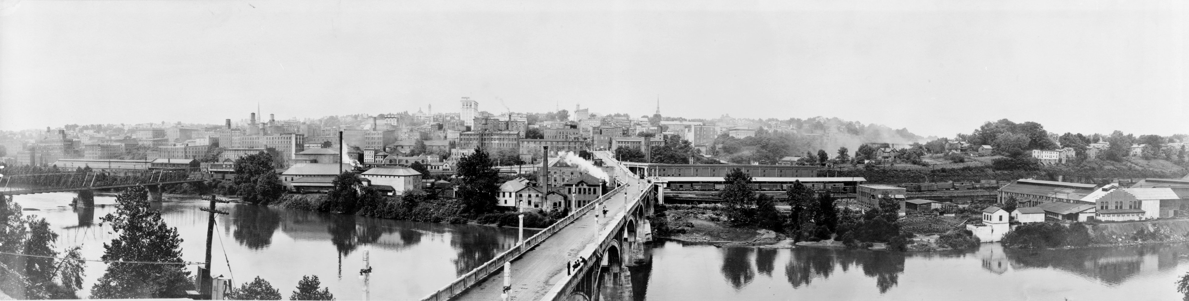 Lynchburg, Virginia, showing new viaduct. circa 1919.